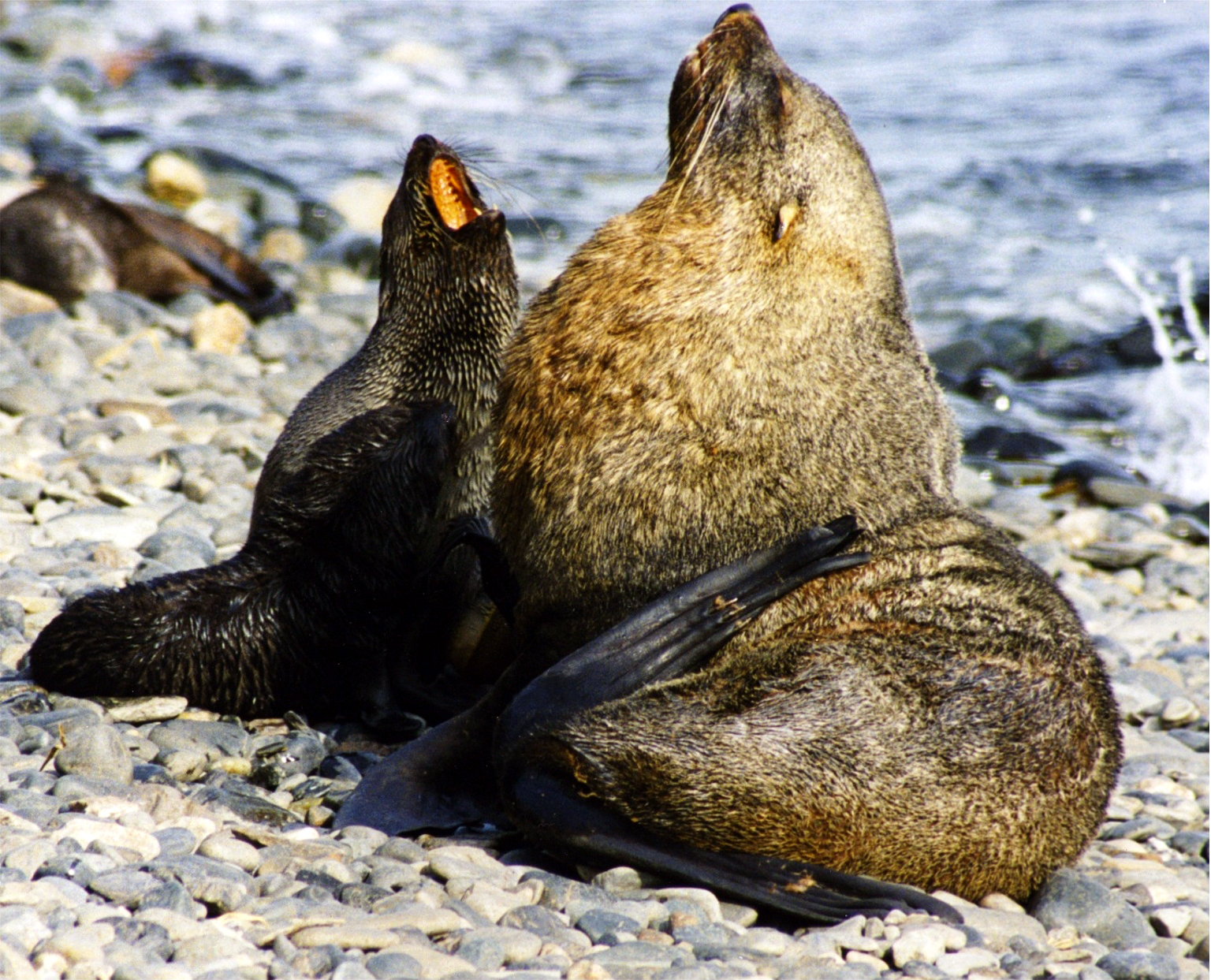 Antarctic Fur Seals at South Georgia Island The image was taken by Brocken Inaglory. The image is a scan of an old print.